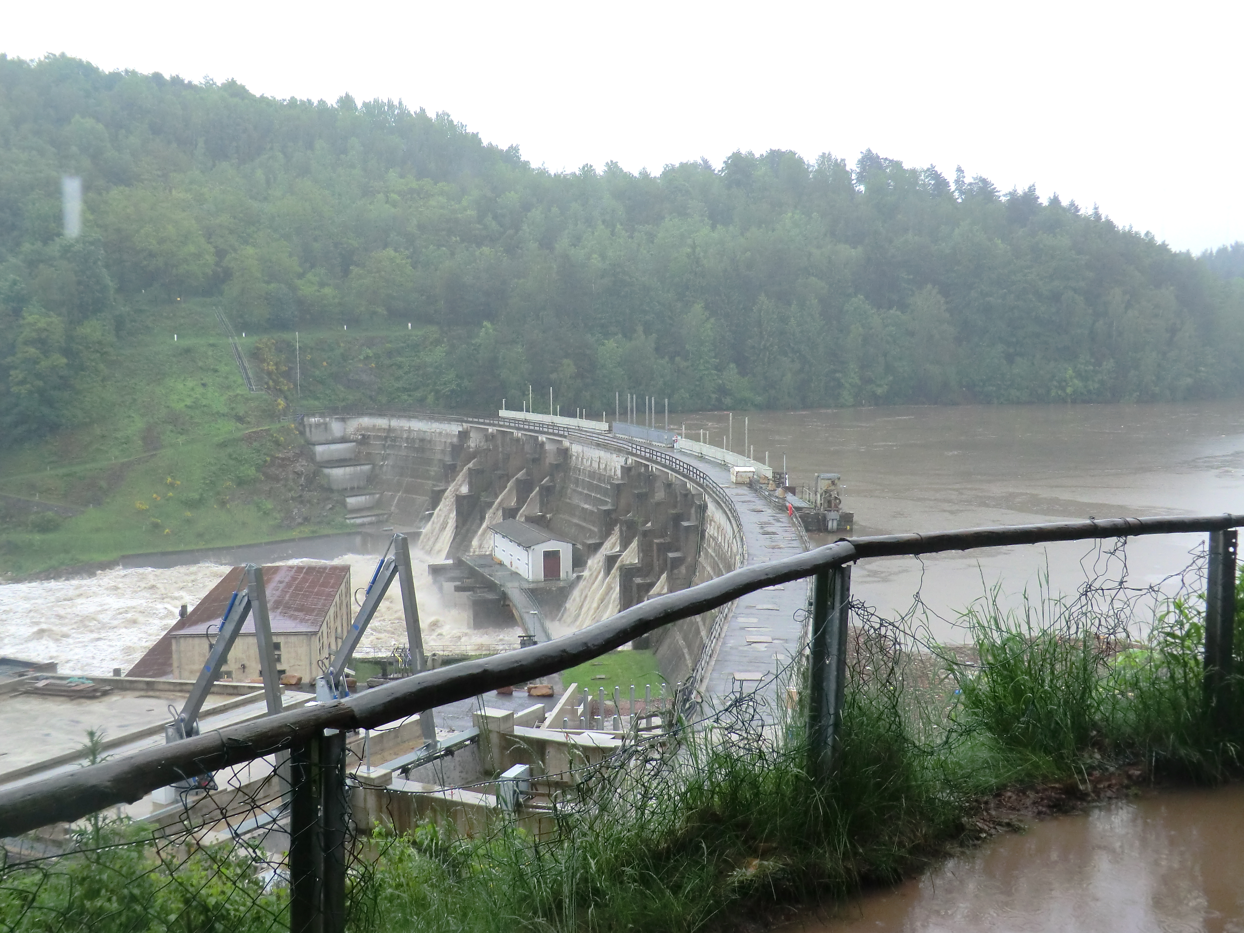 Juni 2013 Creative Commons Licence BY 2.0 Quellenangabe / Credit: Photo by Maja Dumat